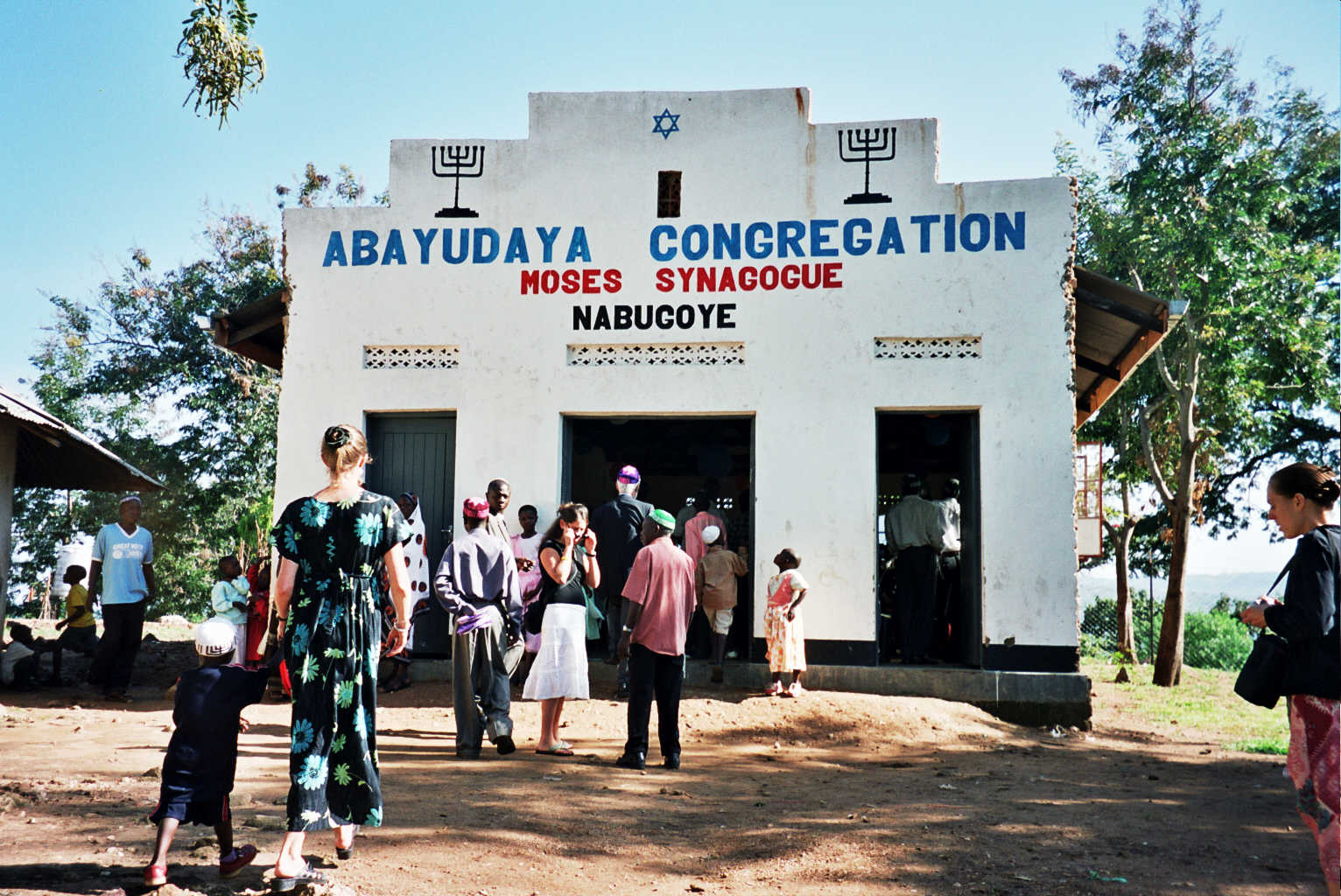 Synagogue of the Abayudaya Jewish community in Nabugoye, Mbale, Uganda. Gathering on Rosh Hashana